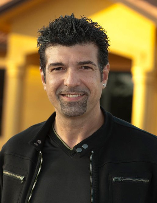 Tony Catania